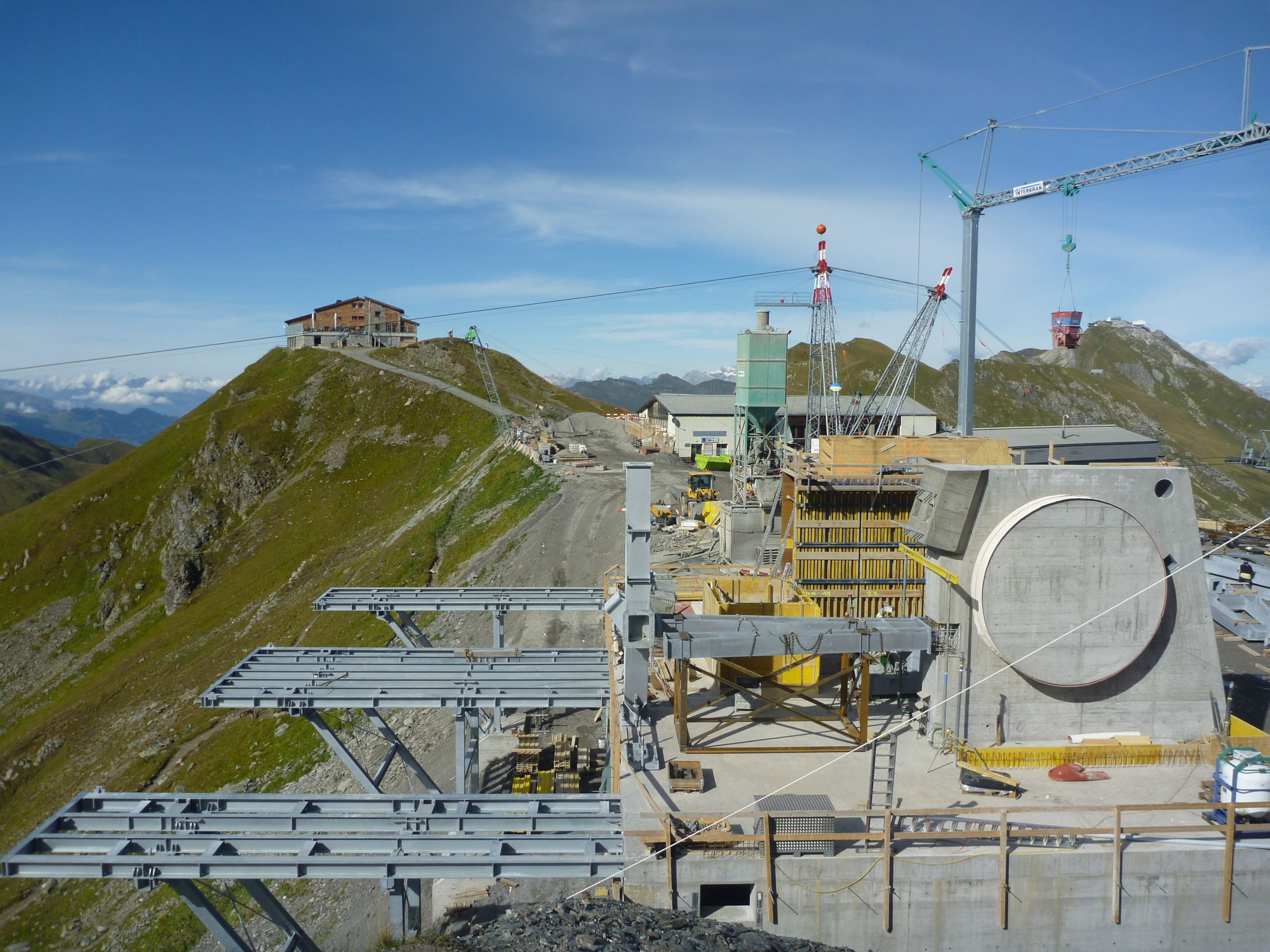 Cableway "Urdenbahn" under construction (2013), Arosa/Switzerland